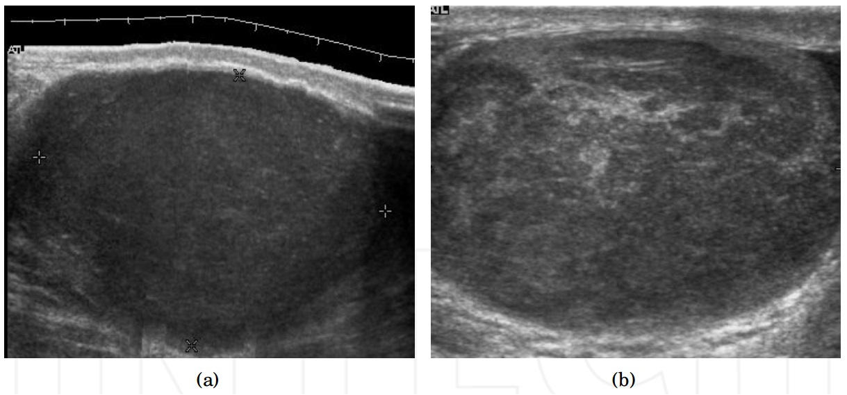 Scrotal ultrasonography of seminoma.